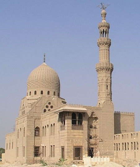 Emir Qurqumas complex, Northern Cemetery, Cairo